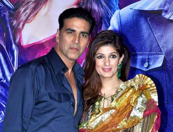 Akshay with his wife and actress Twinkle Khanna, at Ekta Kapoor's party for 'Once Upon a Time In Mumbaai Dobara'.